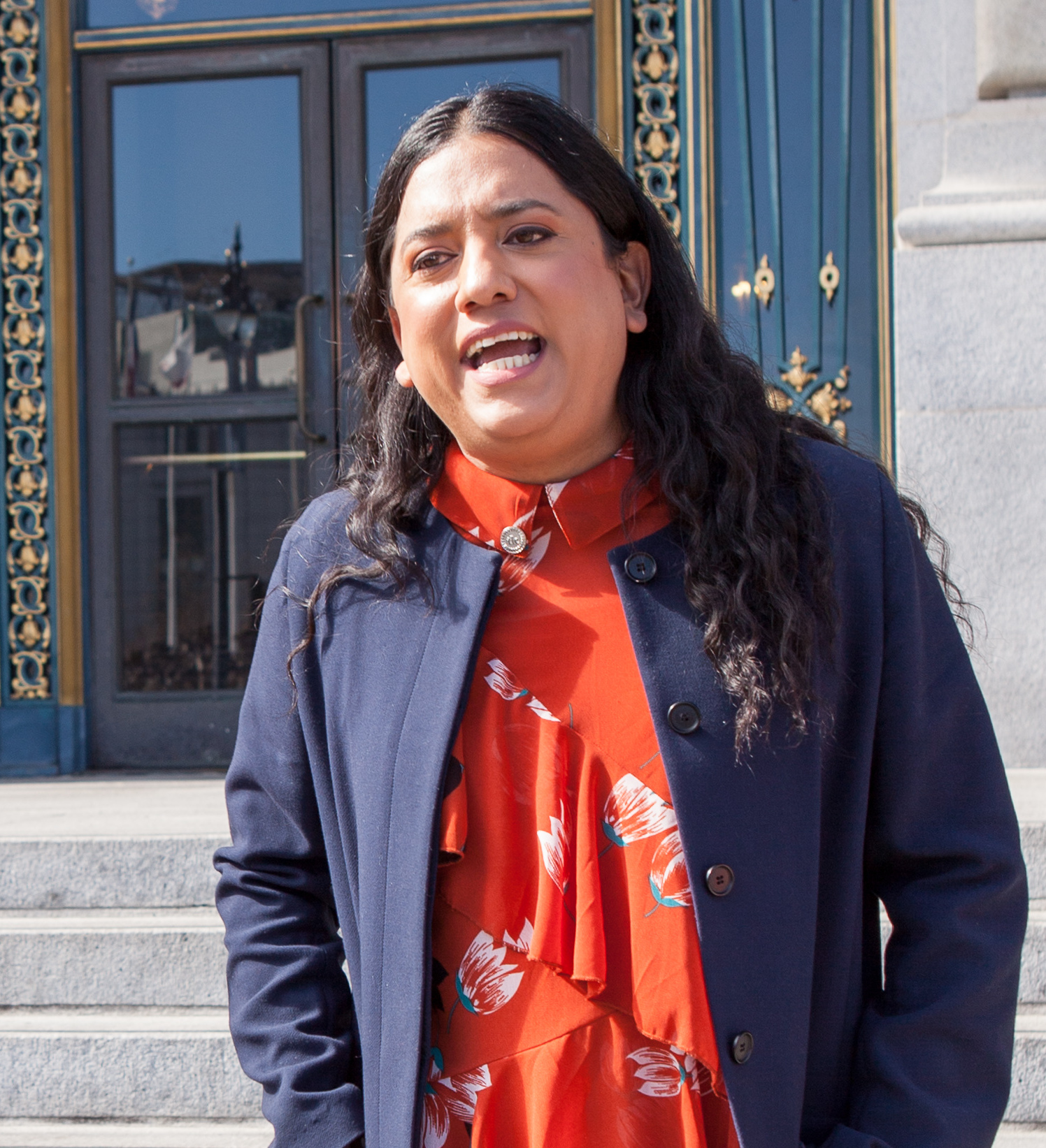 Isa Noyola speaks at a Transgender Law Center rally outside San Francisco City Hall.